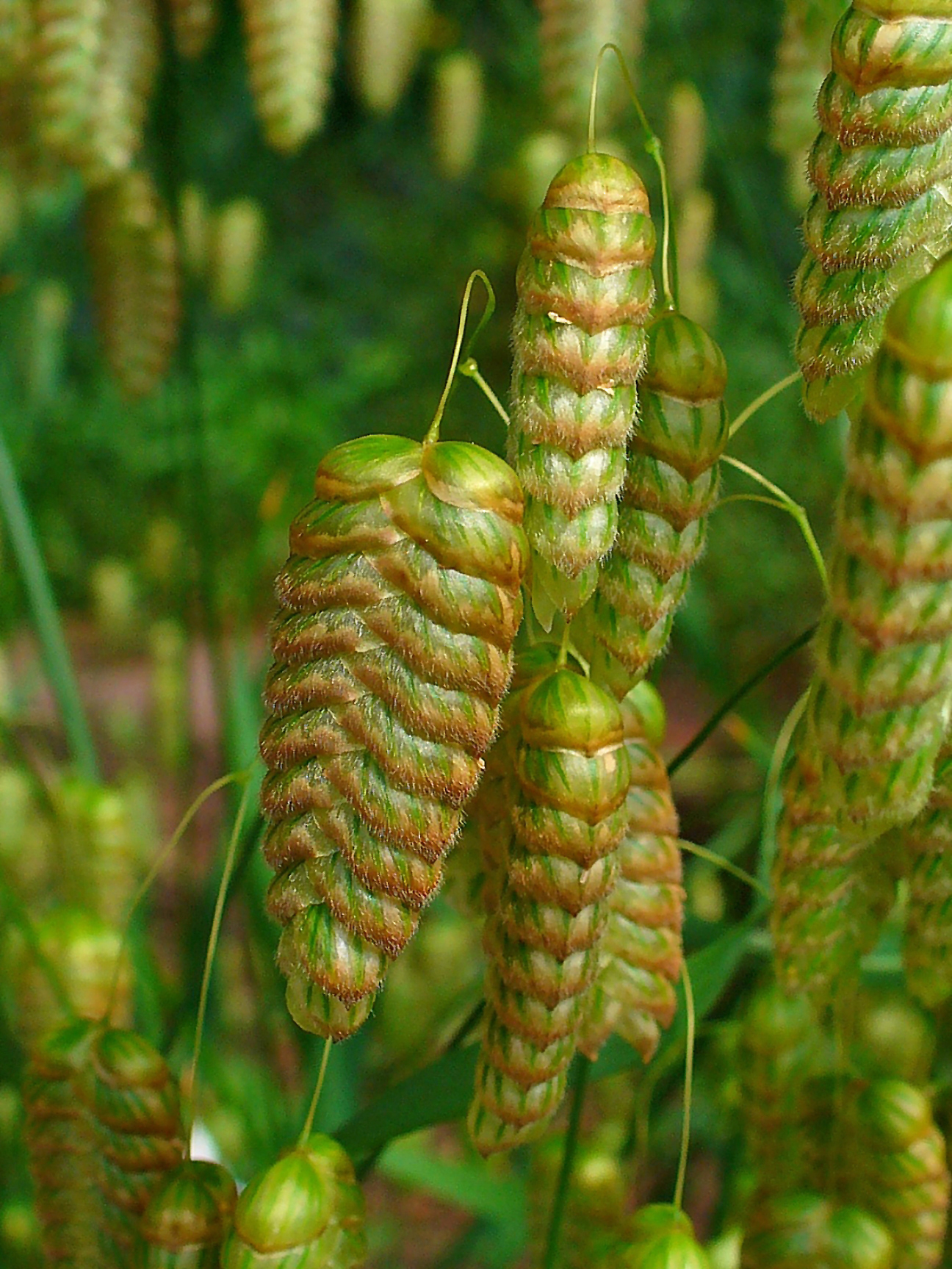 Briza maxima, Poaceae, Big Quaking Grass, Great Quaking Grass, Large Quaking Grass , Quaking Grass, Blowfly Grass, Shelly Grass, ears; Botanical Garden KIT, Karlsruhe, Germany.